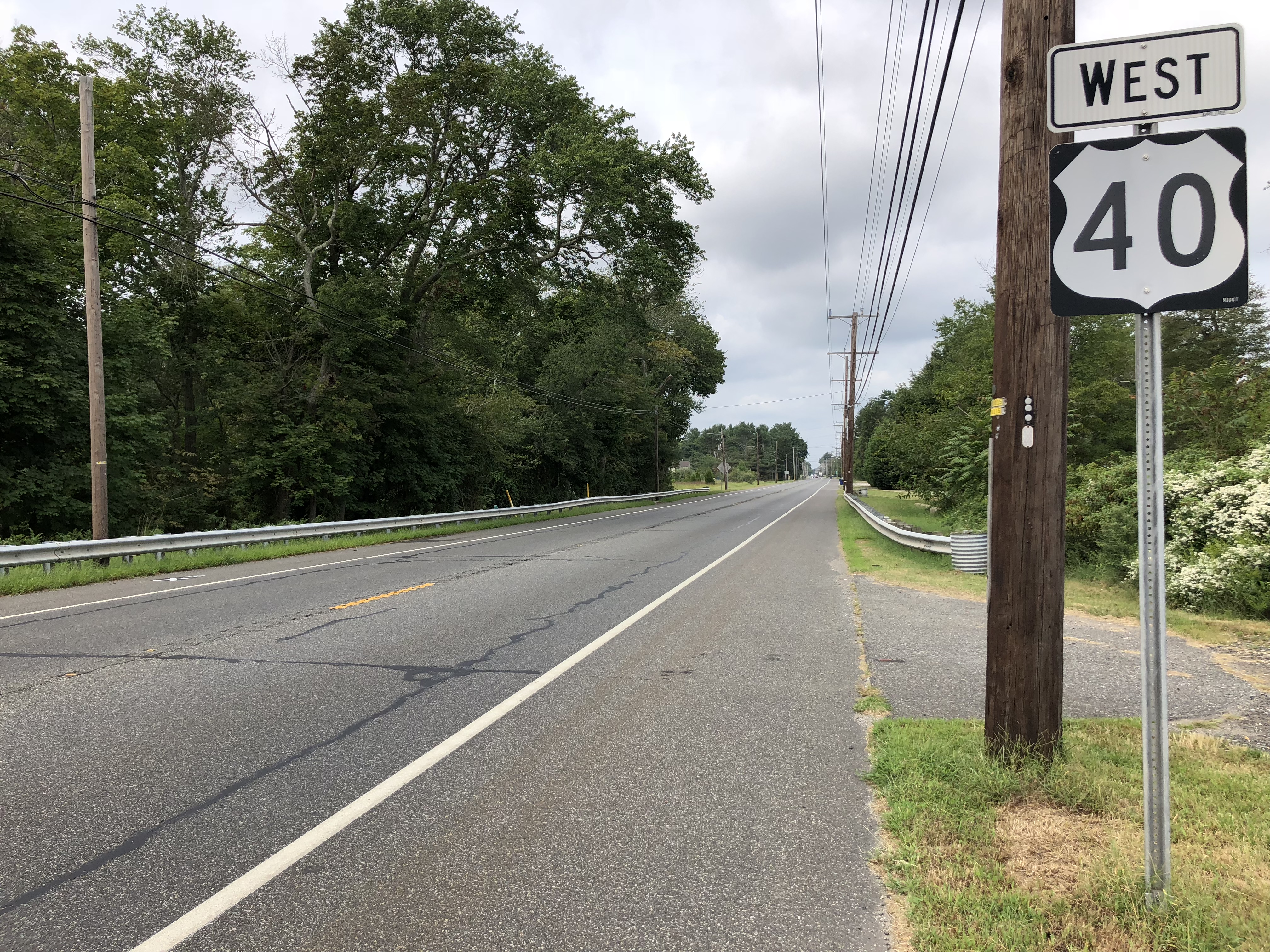 View west along U.S. Route 40 (Harding Highway) just west of Gloucester County Route 661 (Madison Avenue) along the border of Franklin Township and Newfield in Gloucester County, New Jersey